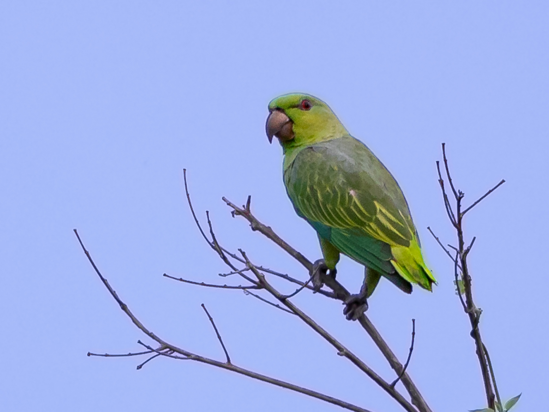 Short-tailed parrot, Careiro da Várzea, Amazonas, Brazil